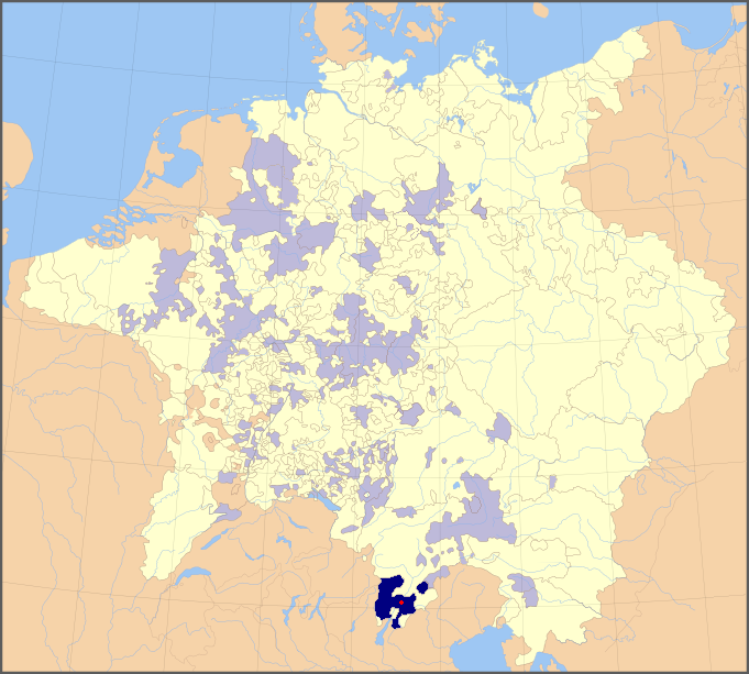 Map of the Holy Roman Empire, 1648, with the territories belonging to the prince-bishop of Trento/Trient highlighted